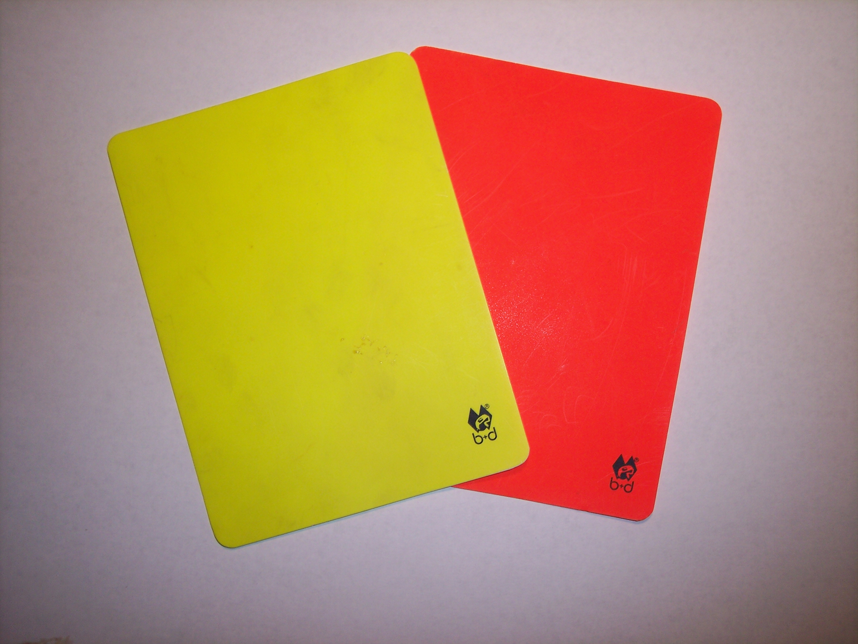 Yellow and red card (Soccer)